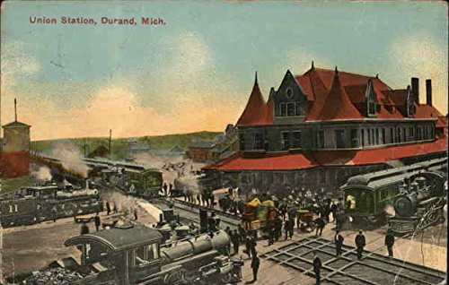 Post card showing the station, mailed in 1912.